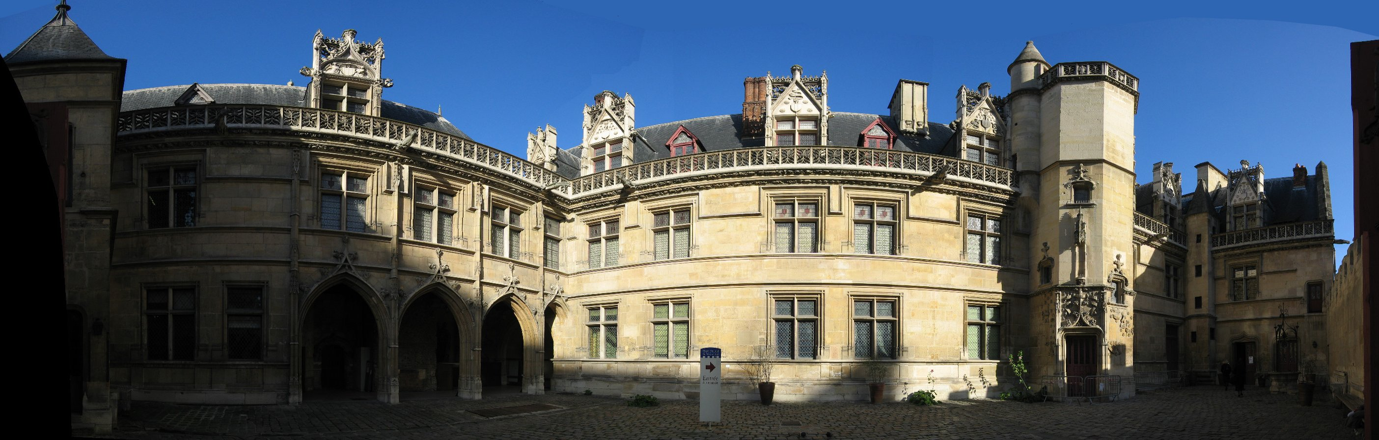 Photo's taken on a trip to Paris from 19 to 22 jan, 2007 View from the walled entrance square of the Musée national du Moyen Âge (with back to the gate and outside world)